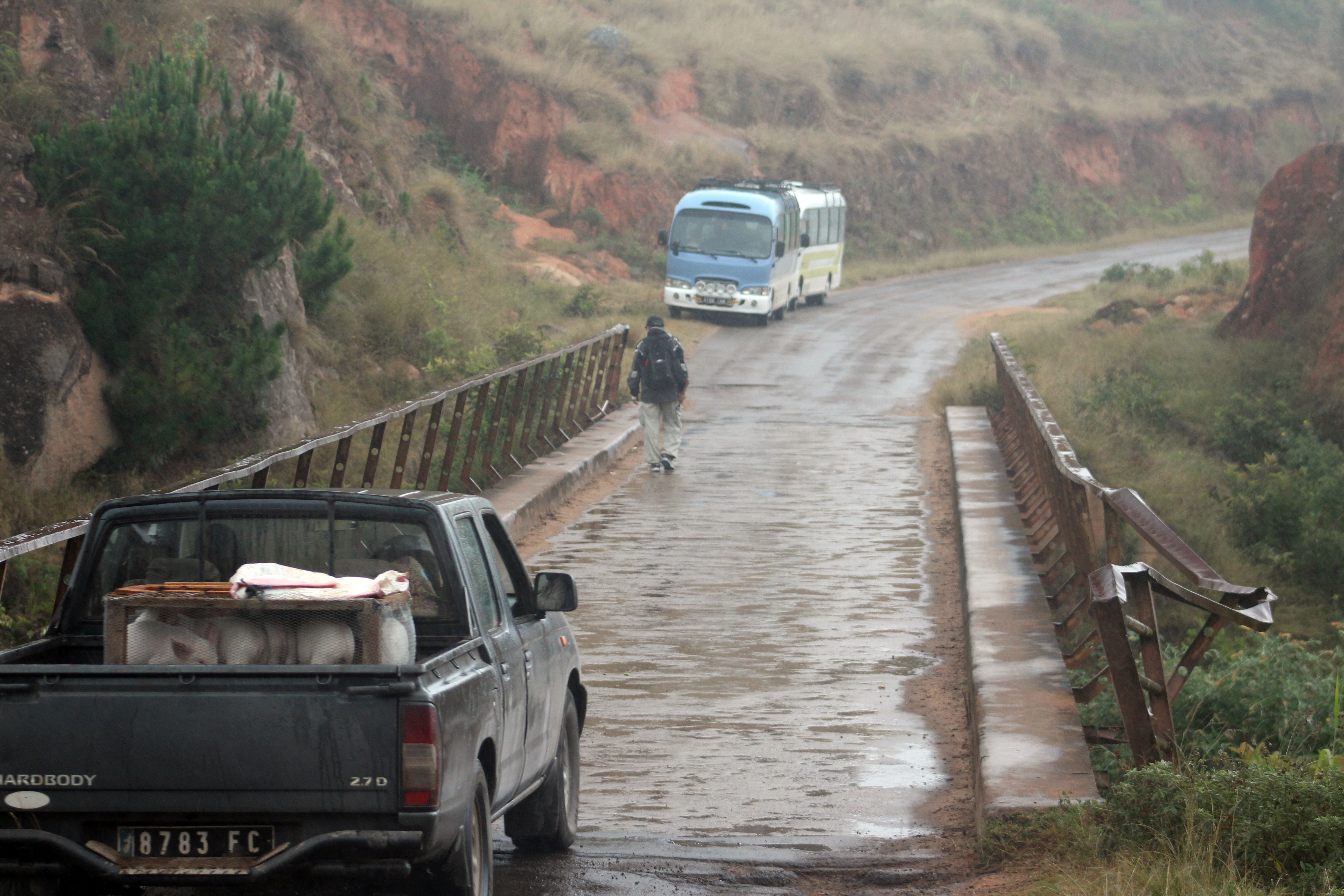 Madagascar, National Road 35 at Girder Bridge, view to the west